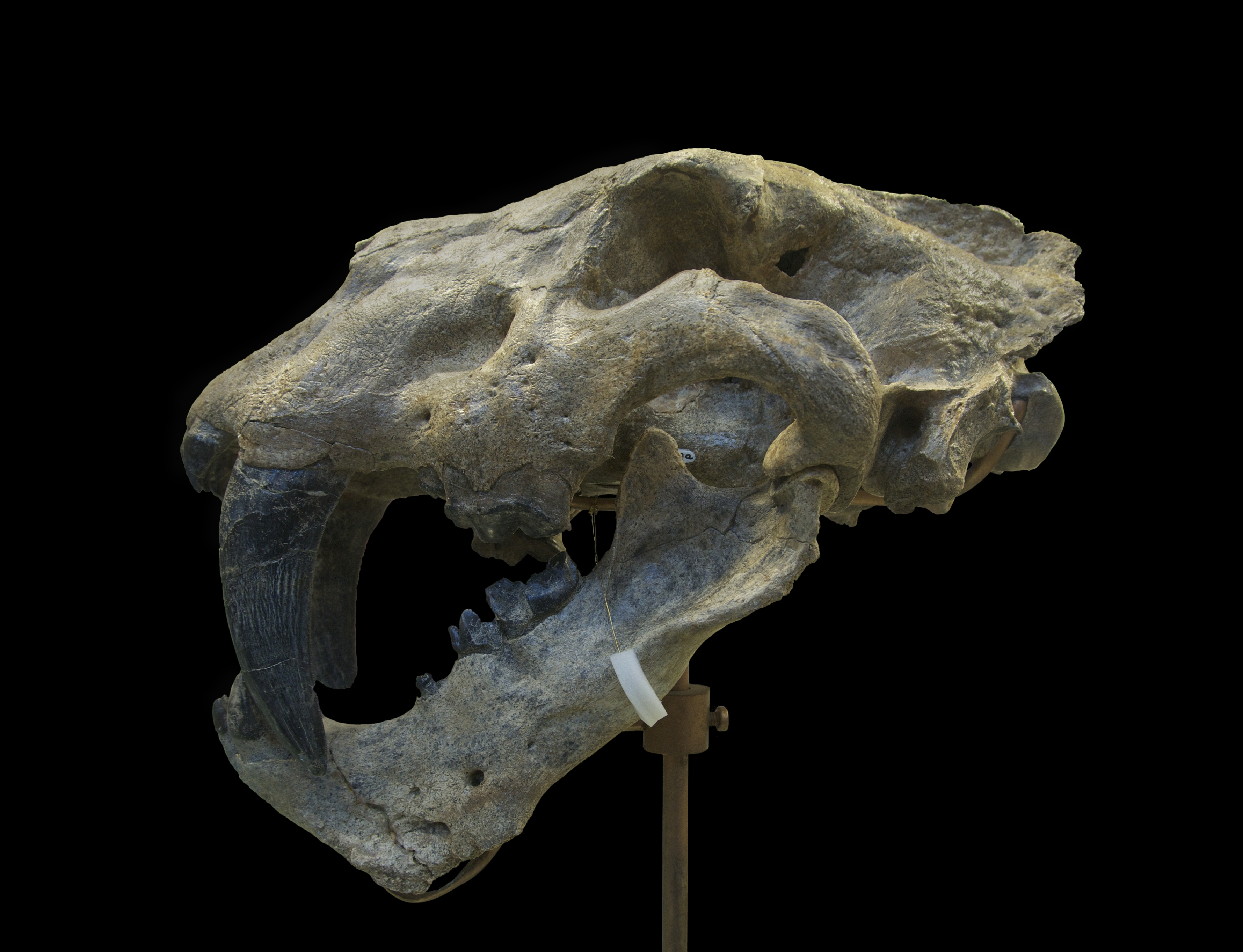 Homotherium crenatidens Fabrini (Saber toothed cat). Skull. Villafranchien. Perrier (Puy-de-Dôme). National Museum of Natural History, Paris.